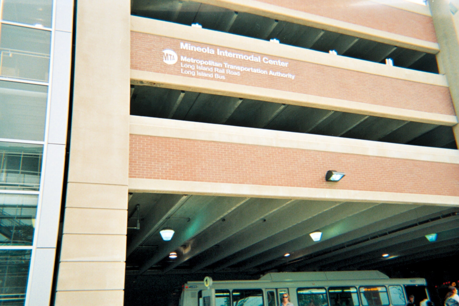 The Mineola Intermodal Center near the LIRR Station in Mineola, New York.